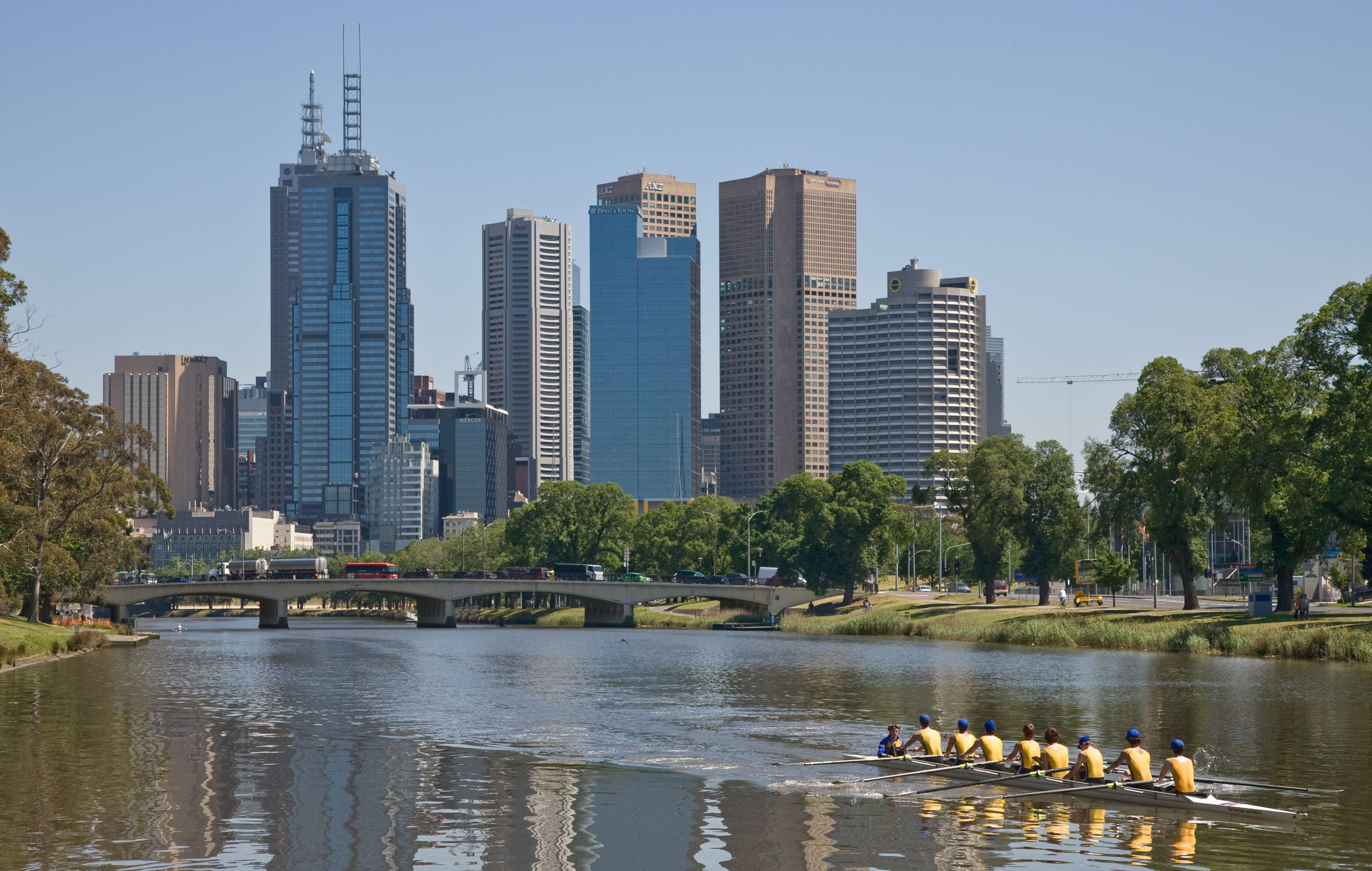 A Carey eight boat crew (By Courage and Faith II) on the Yarra river with the Melbourne skyline in the background. Taken by myself with a Canon 5D and 24-105mm f/4L IS lens.